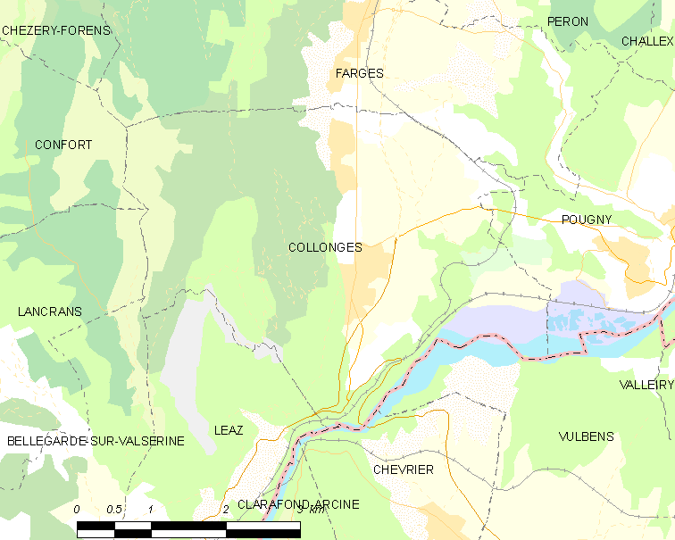 Map of French commune: Collonges Map commune FR insee code 01109.png